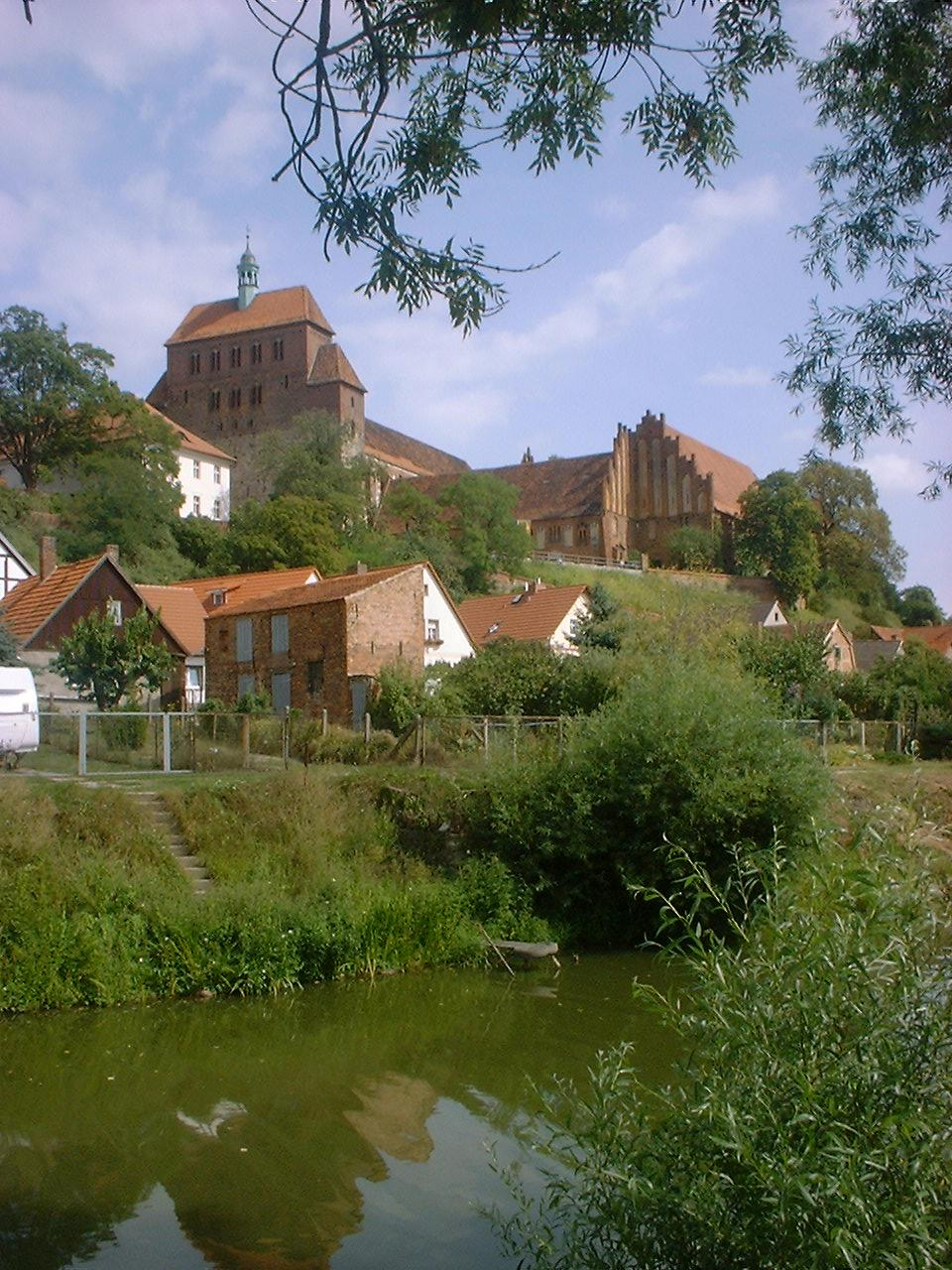 St. Mary's Cathedral in Havelberg in Saxony-Anhalt, Germany